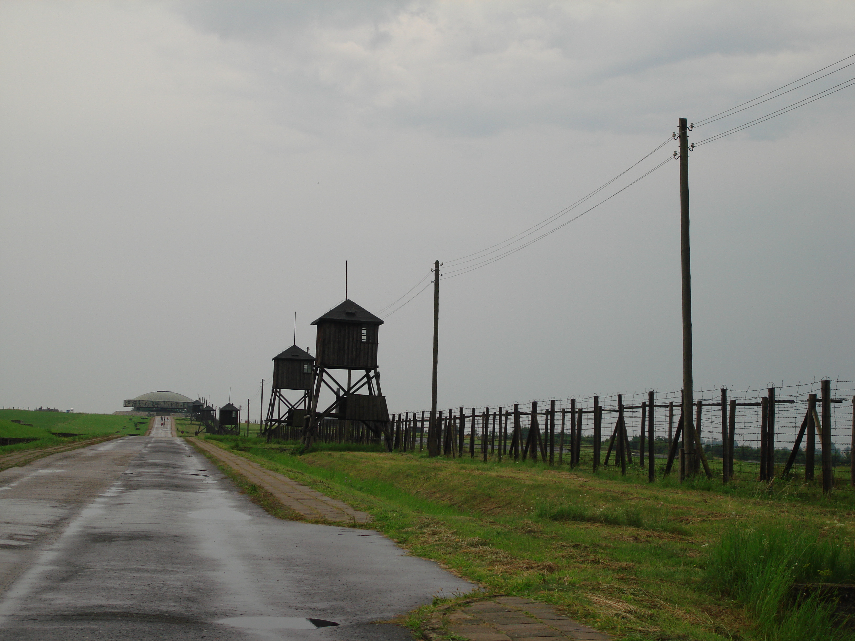 German concentration camp Majdanek